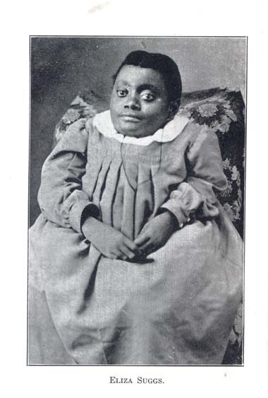 A photographic portrait from 1906 of a small African-American woman, seated, with hands folded in her lap. She is wearing a voluminous dress with a white collar.